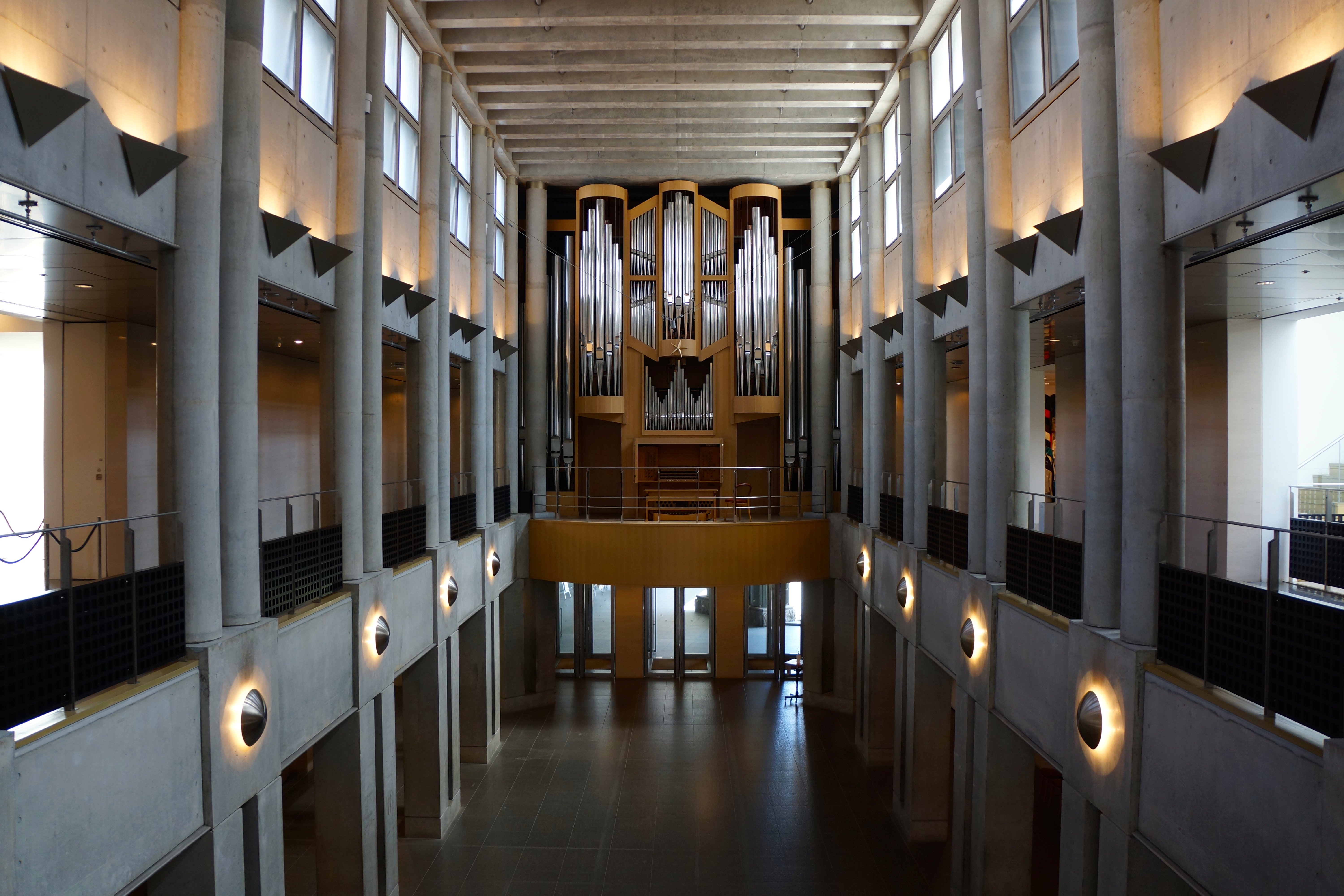 Pipe orga in Art tower mito